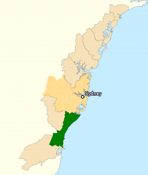 This image incorporates data that is: © Commonwealth of Australia (Australian Electoral Commission) 2009 Division of Cunningham 2010